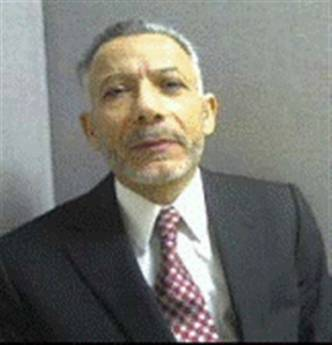 Khalid Dunham Al-Jawary, convicted Palestinian terrorist.